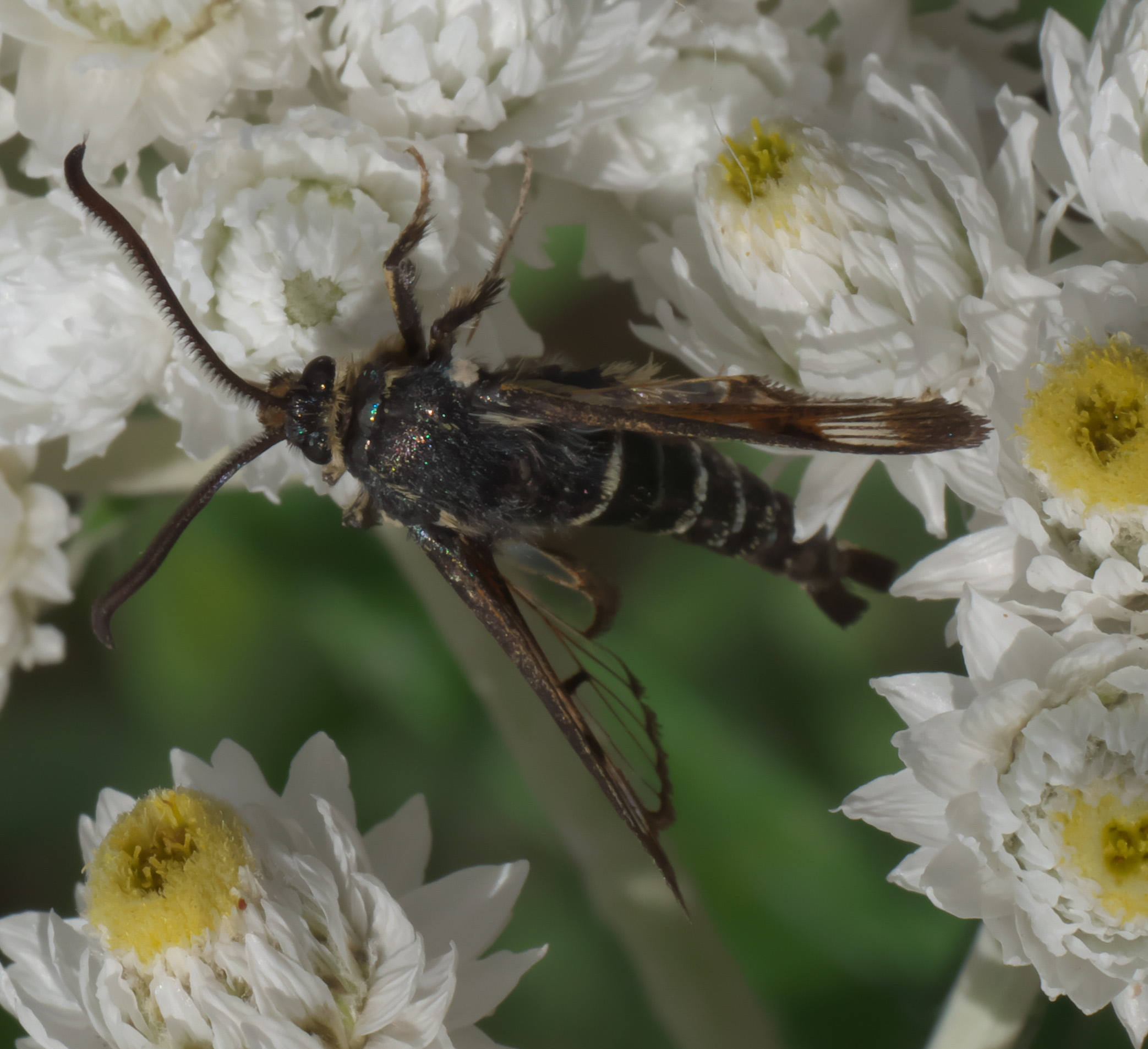 Albuna pyramidalis, Fireweed Clearwing Moth - Hodges #2533, ID Confidence: 90